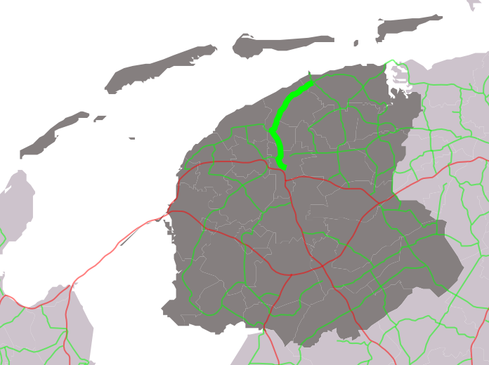 Map of Friesland with Dutch provincial road no. 357